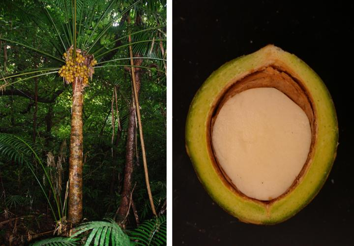 Developed seeds and cross section seed